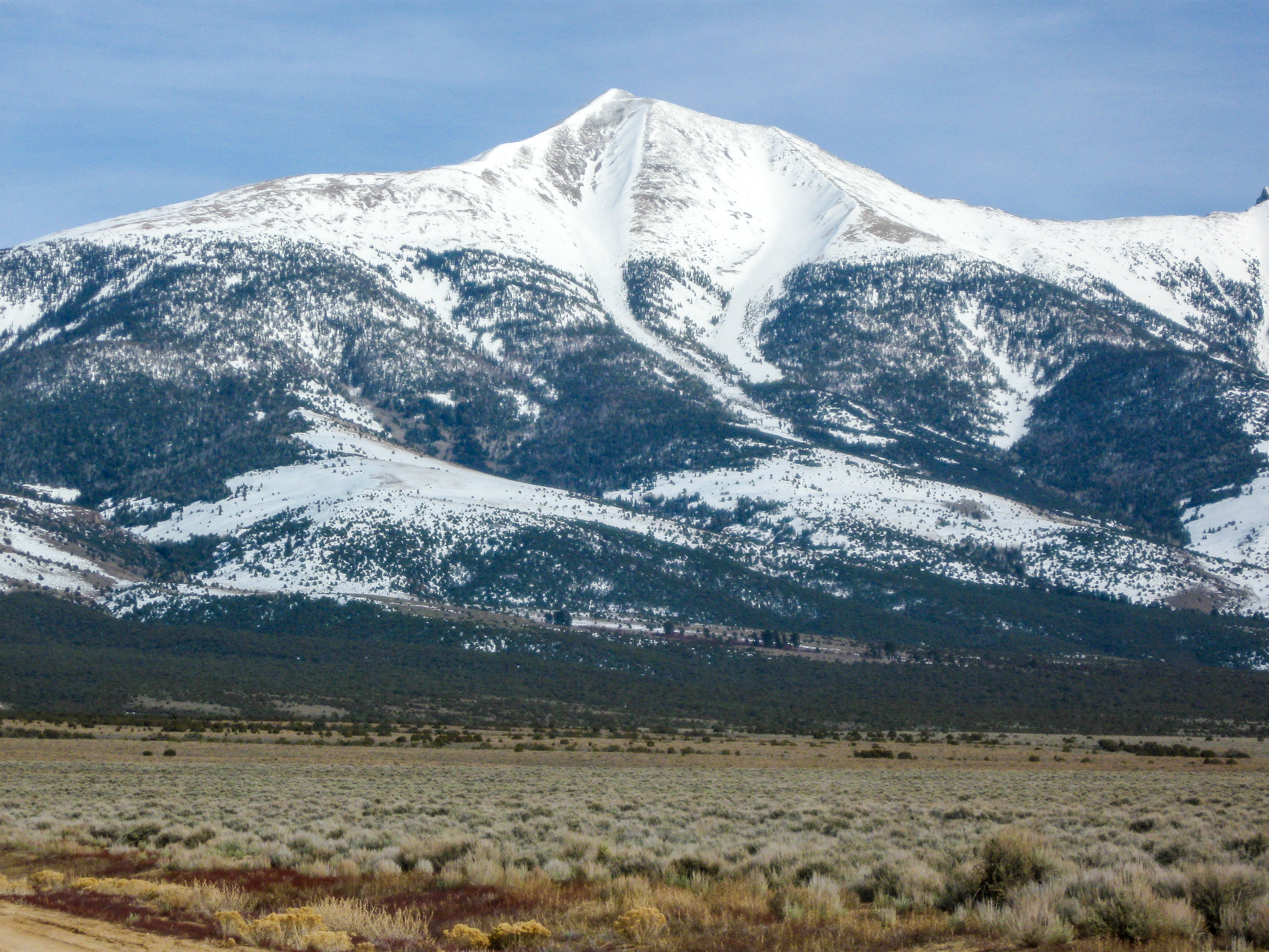 Wheeler peak in Nevada. Photo is looking east-southeast.